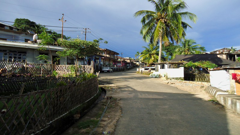 Nongtalang Town Trai Sohnekor as on 4-Aug-2012